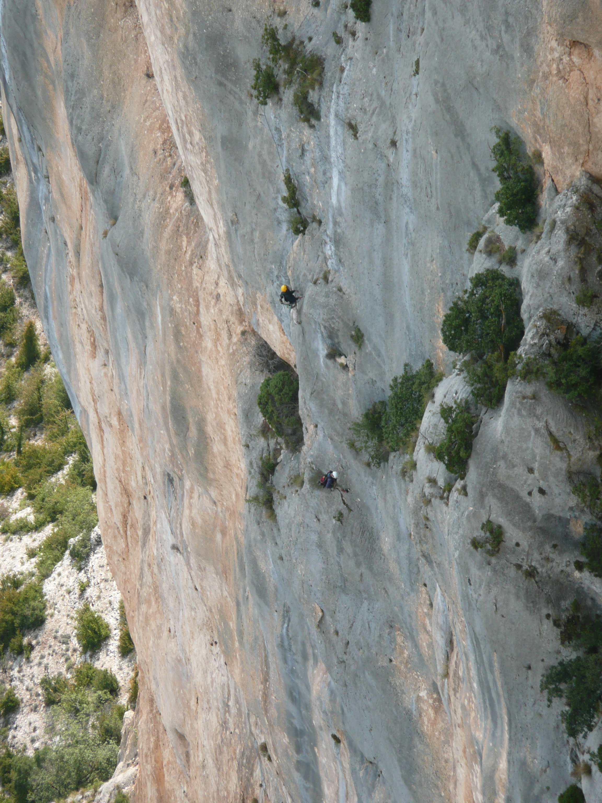 Climbing in the Verdon Gorge